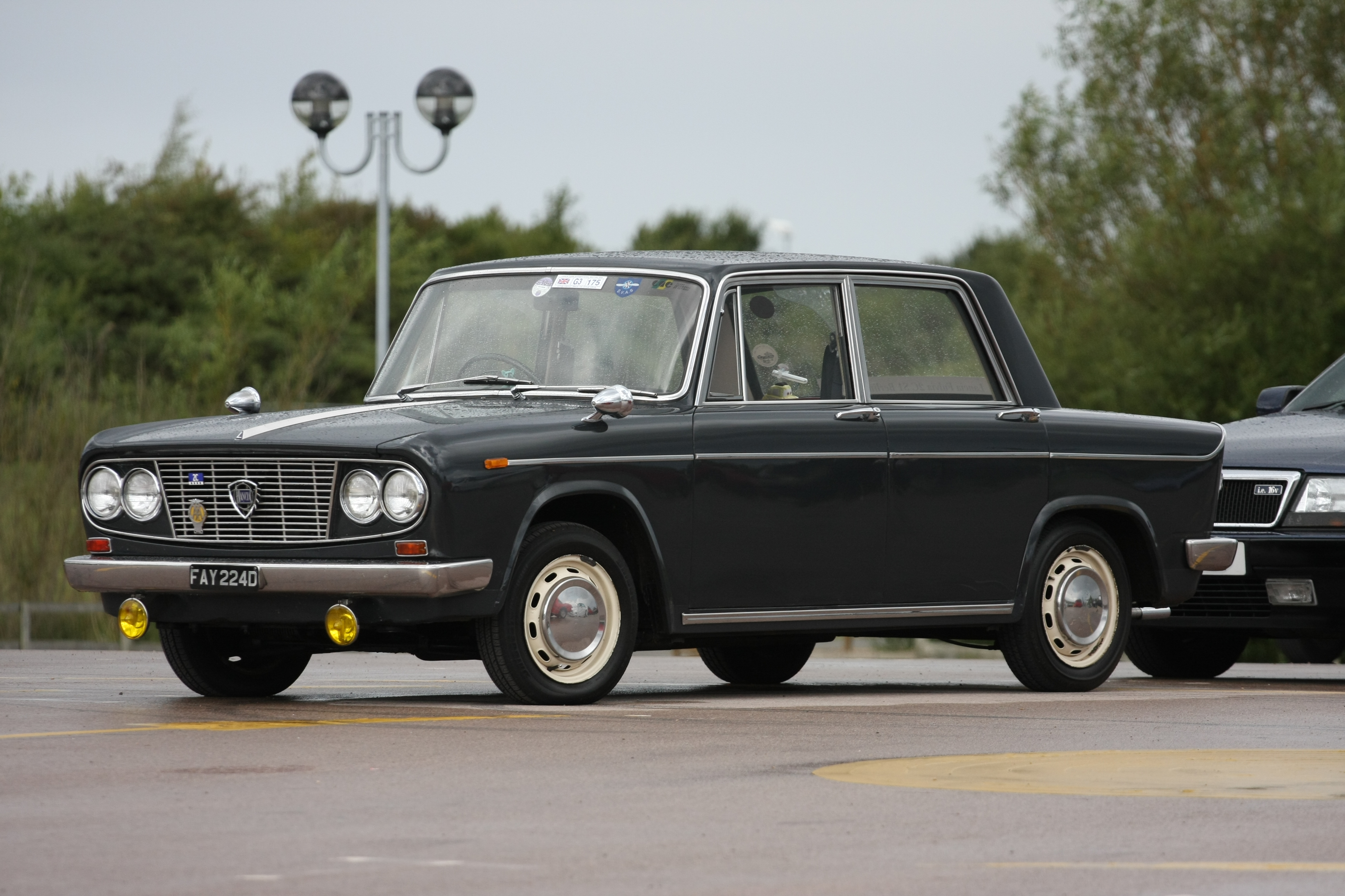 Auto Italia Autumn Italian Car Day Heritage Motor Centre Gaydon 2010